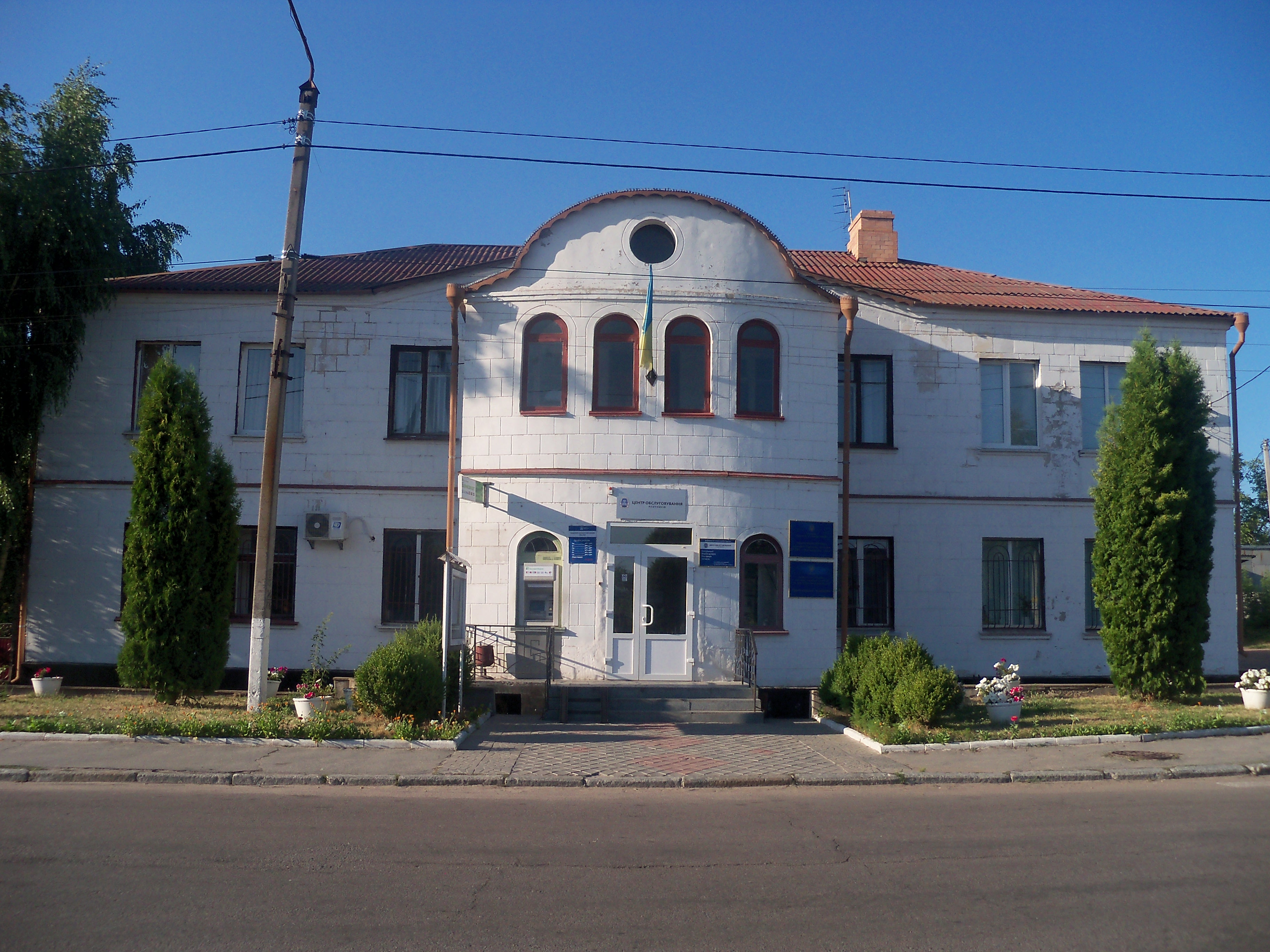 Andrushivka tax administration